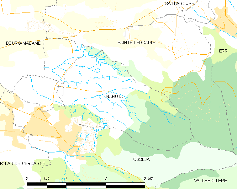 Map of French municipality